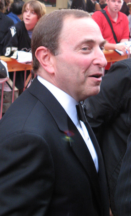 NHL Commisioner Gary Bettman in 2007.